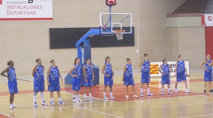 Avenida Salamanca basket team.